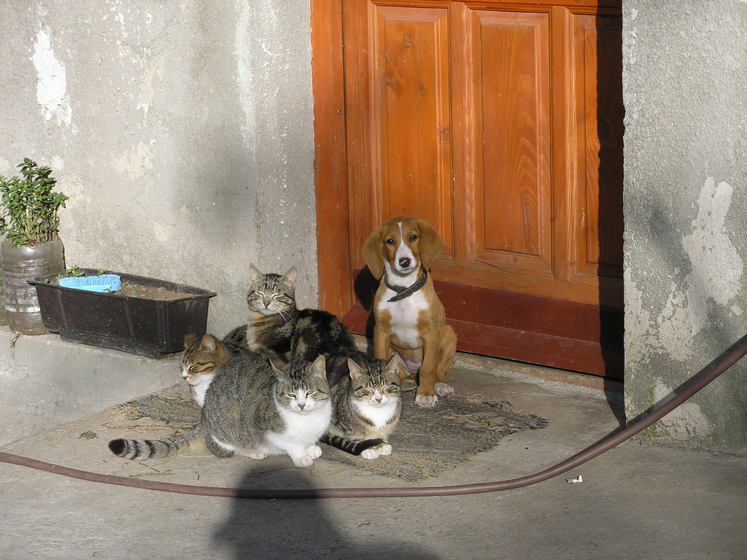 Cats and a dog